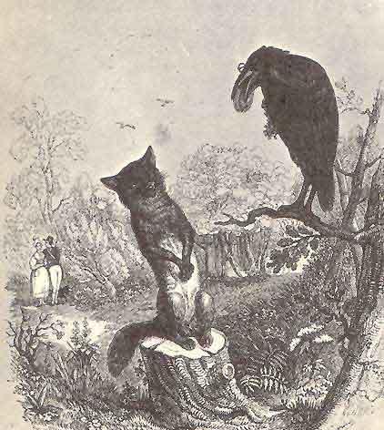 Illustration by Grandville (1803-1847) for an edition of fables from La Fontaine. This one illustrates the most famous fable "Le corbeau et le renard".